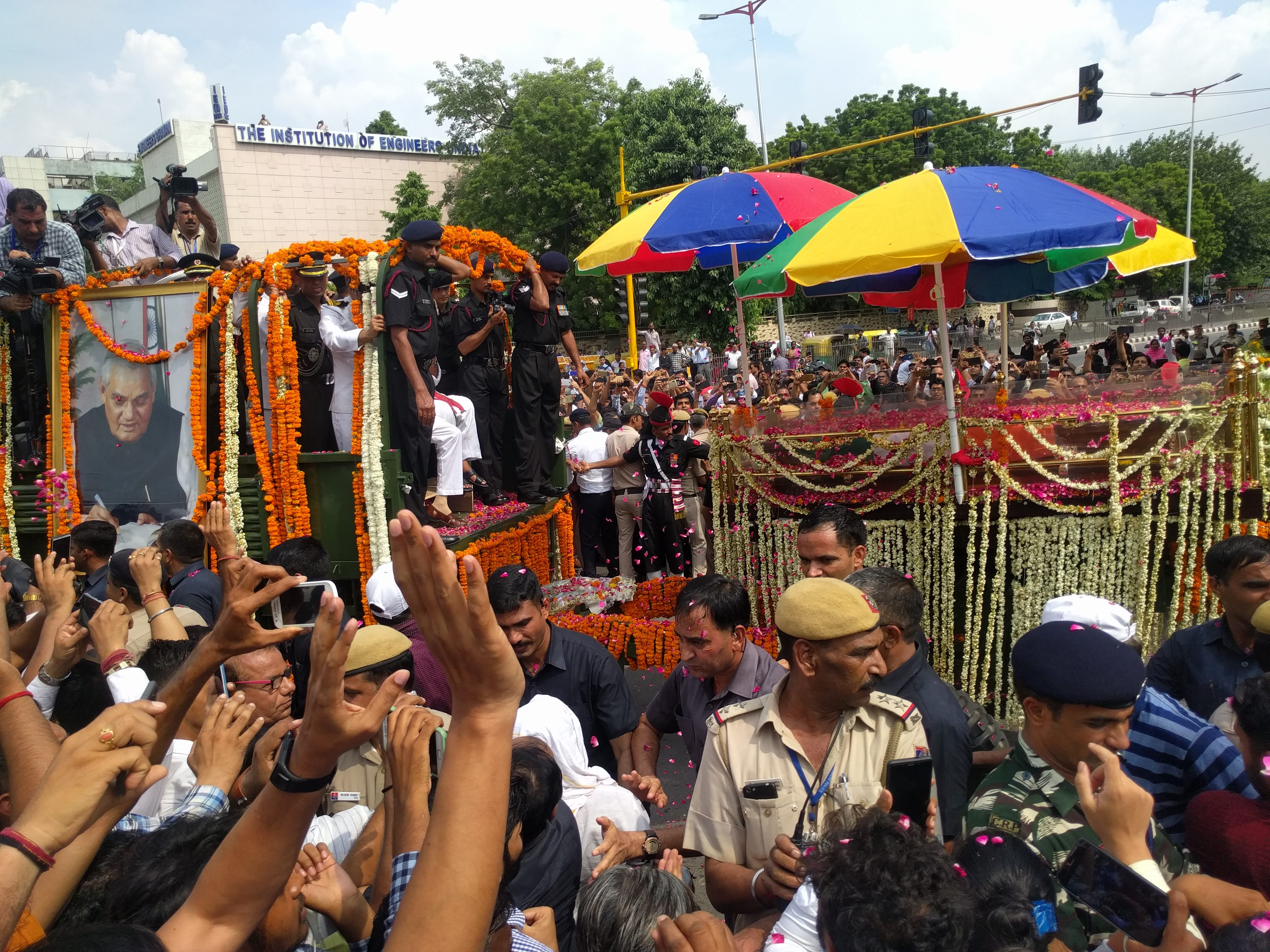 Atal Bihari Vajpayee's funeral procession on 17 August 2018. In picture, the procession is moving from BJP headquarters on Deen Dayal Upadhayay Road and heading to the Rajghat area for cremation.